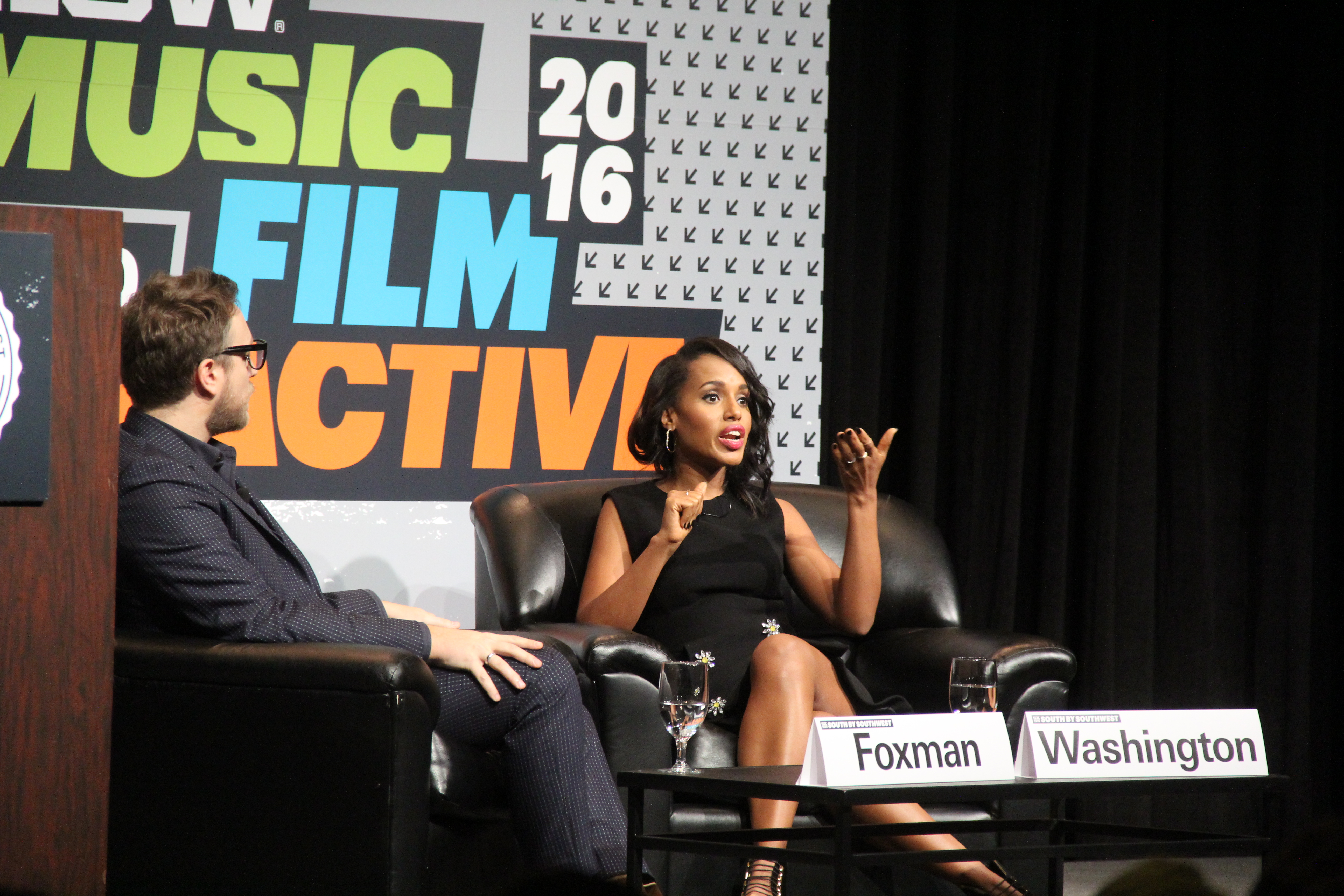 Editorial Director of InStyle & StyleWatch Ariel Foxman and actress Kerry Washington speak onstage at 'Kerry Washington and the New Rules of Social Stardom'. Taken at SXSW 2016.